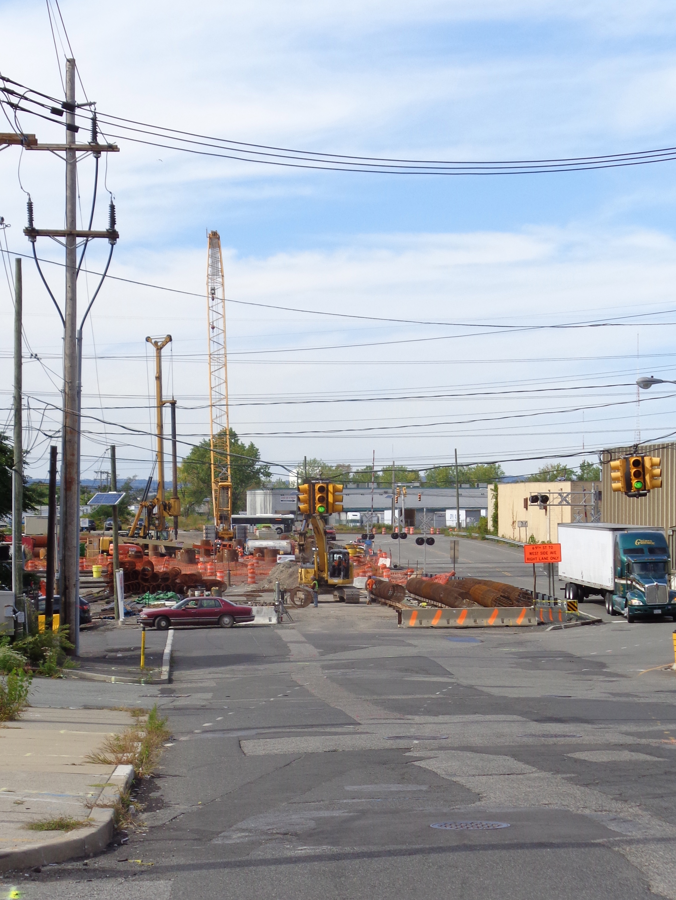 69th Street Bridge building site in at North Bergen Yard